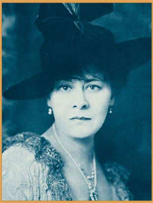 Publicity photo of Betty Nansen from Stars of the Photoplay